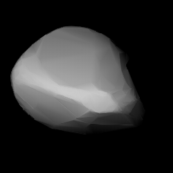 3D convex shape model of 1840 Hus, computed using light curve inversion techniques. J. Hanuš, J. Ďurech, M. Brož, B. D. Warner (June 2011). "A study of asteroid pole-latitude distribution based on an extended set of shape models derived by the lightcurve inversion method". Astronomy and Astrophysics 530: A134. ISSN 0004-6361. arXiv